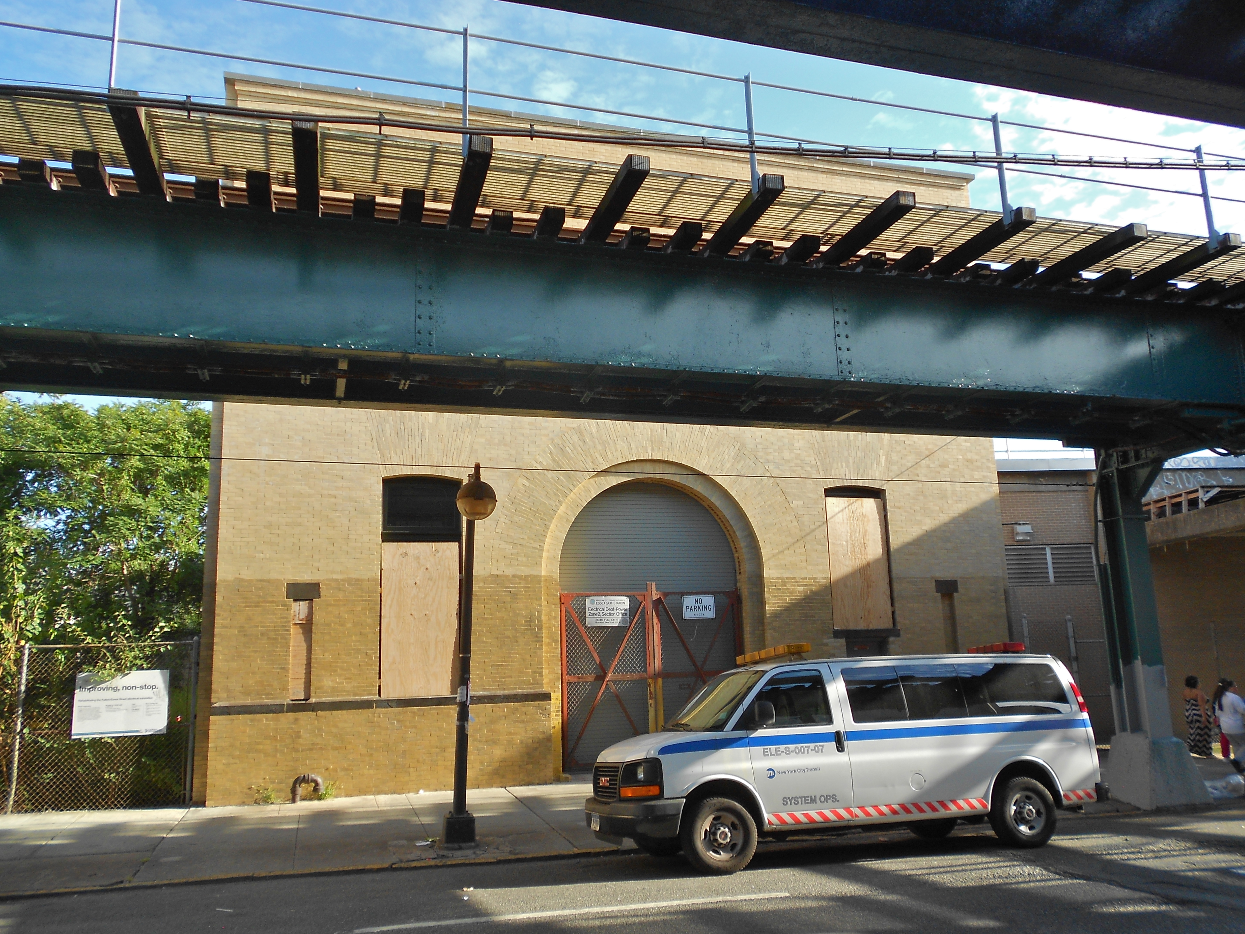 Substation #401 listed by the NRHP on July 6, 2005. At 3046 Fulton St. between Essex St. and Shepherd Ave. in East New York (eastern Brooklyn) part of the New York City Subway System MPS. Overshadowed by the elevated train tracks - that's where the electricity goes.